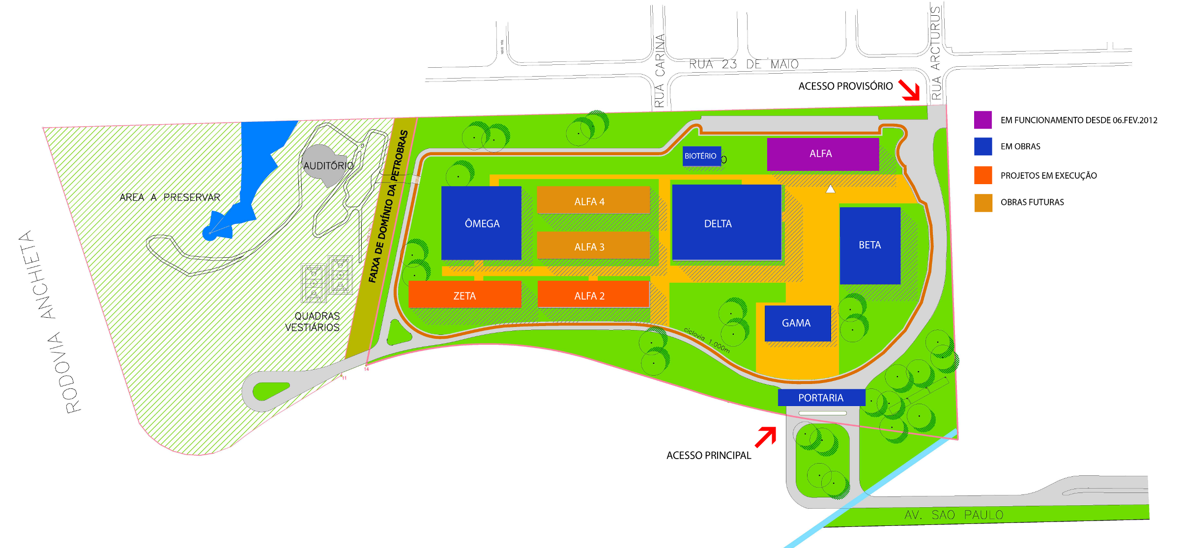 Hand drawing that outlines the São Bernardo do Campus city campus of Universidade Federal do ABC, Brazil.